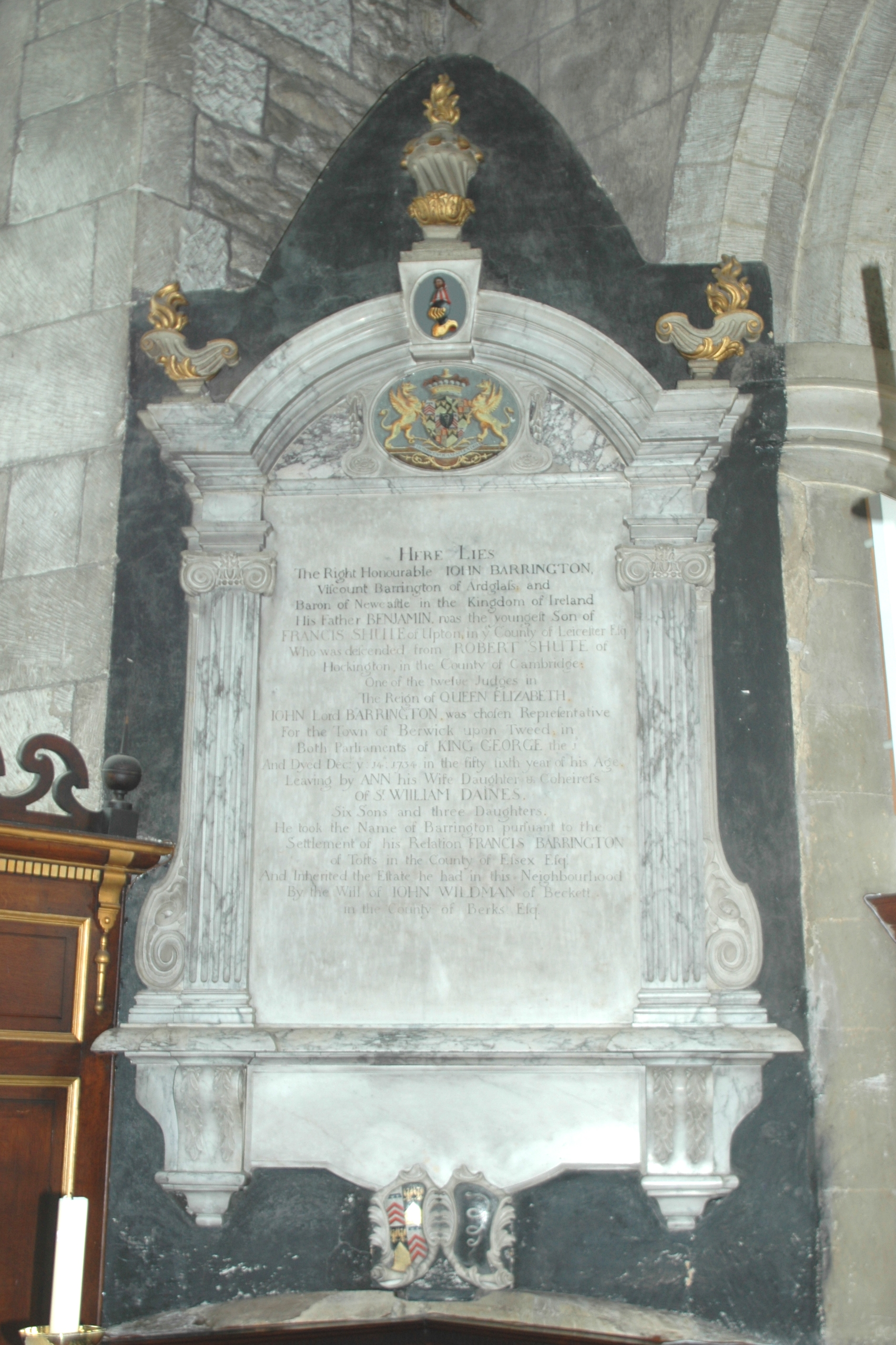 Church of England parish church of St Andrew, Shrivenham, Vale of White Horse, England: monument to John, 1st Viscount Barrington, died 1734.